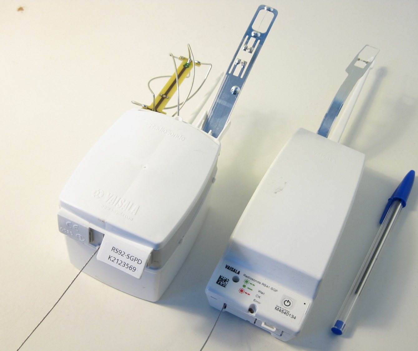 Vaisala RS92-SGPD (left) and Vaisala RS41-SGP (right) radiosondes. Both sondes were launched by weather station KNMI, De Bilt, Netherlands. The RS92 flew on 04-06-2015 00UTC, the RS41 on 05-02-2017 00UTC. The sondes were recovered after landing.